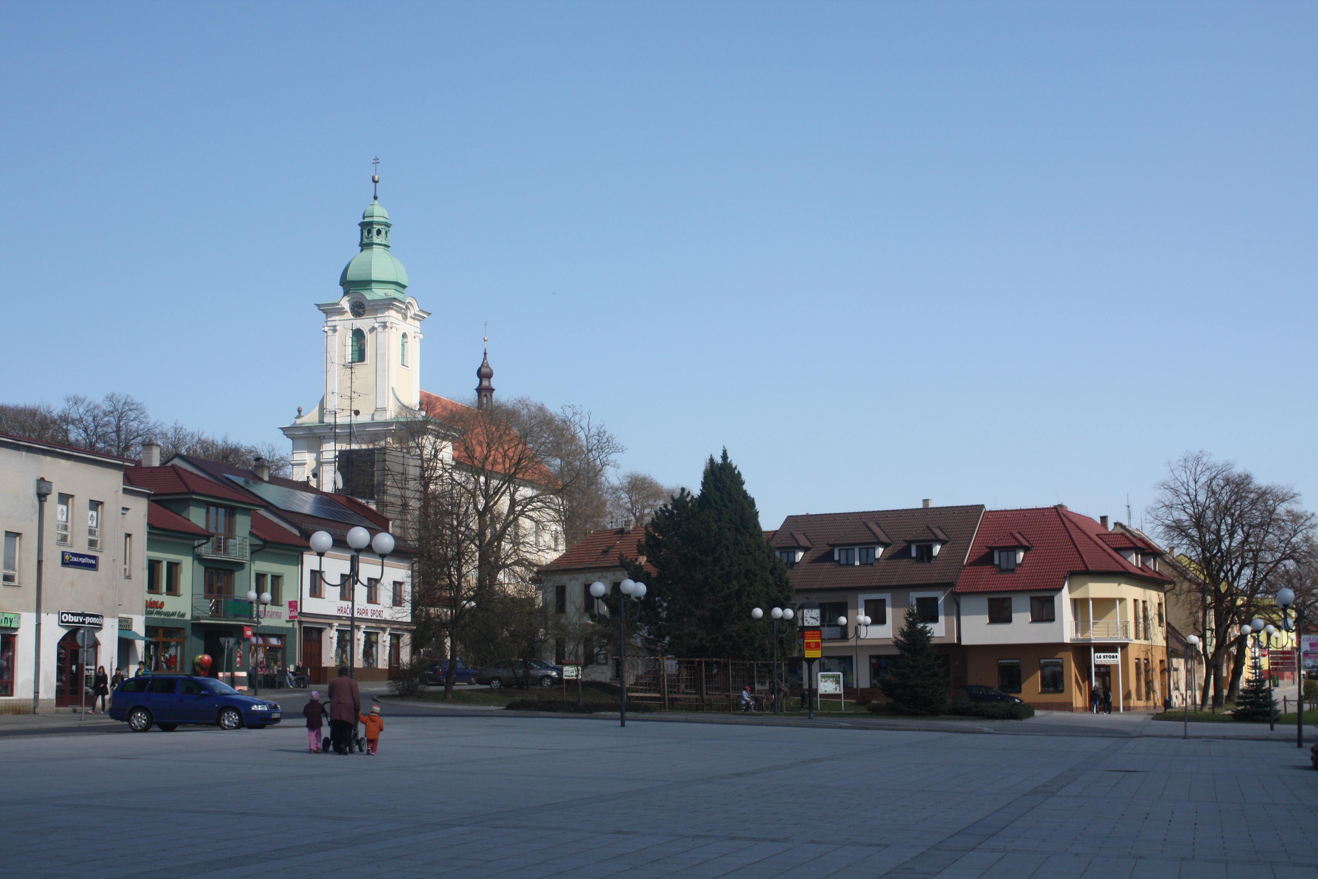 Bzenec (Hodonín district, Czech Republic) - town square